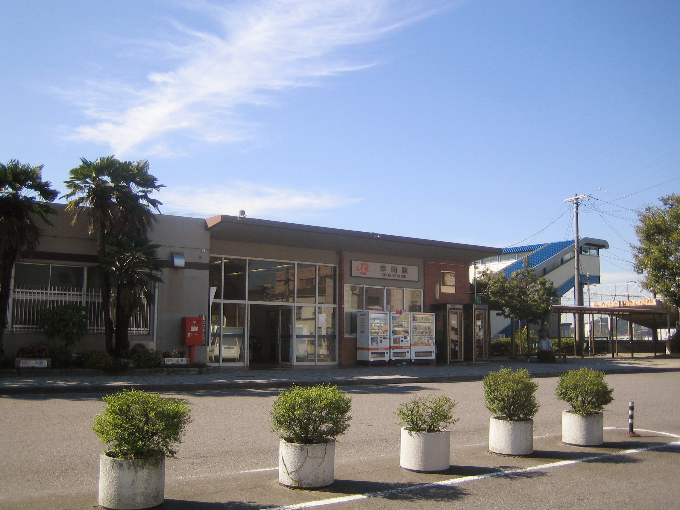 Koda Station on the Tokaido Main Line in Kota, Aichi